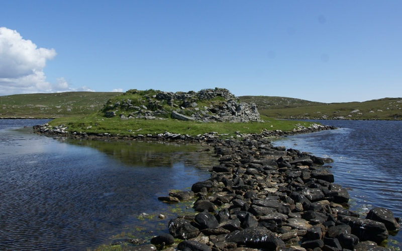 Dun an Sticir, North Uist, Outer Hebrides, Scotland